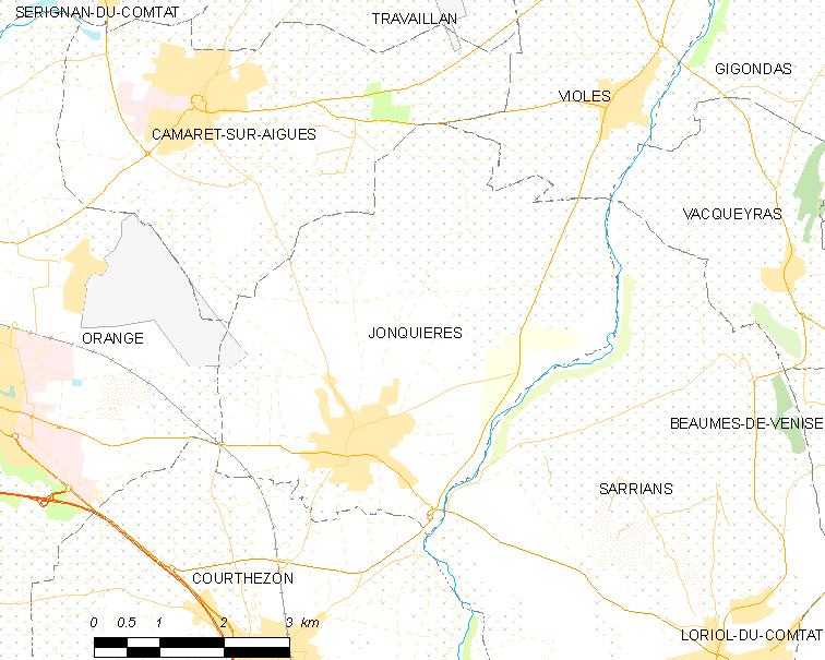 Map of French municipality Jonquières